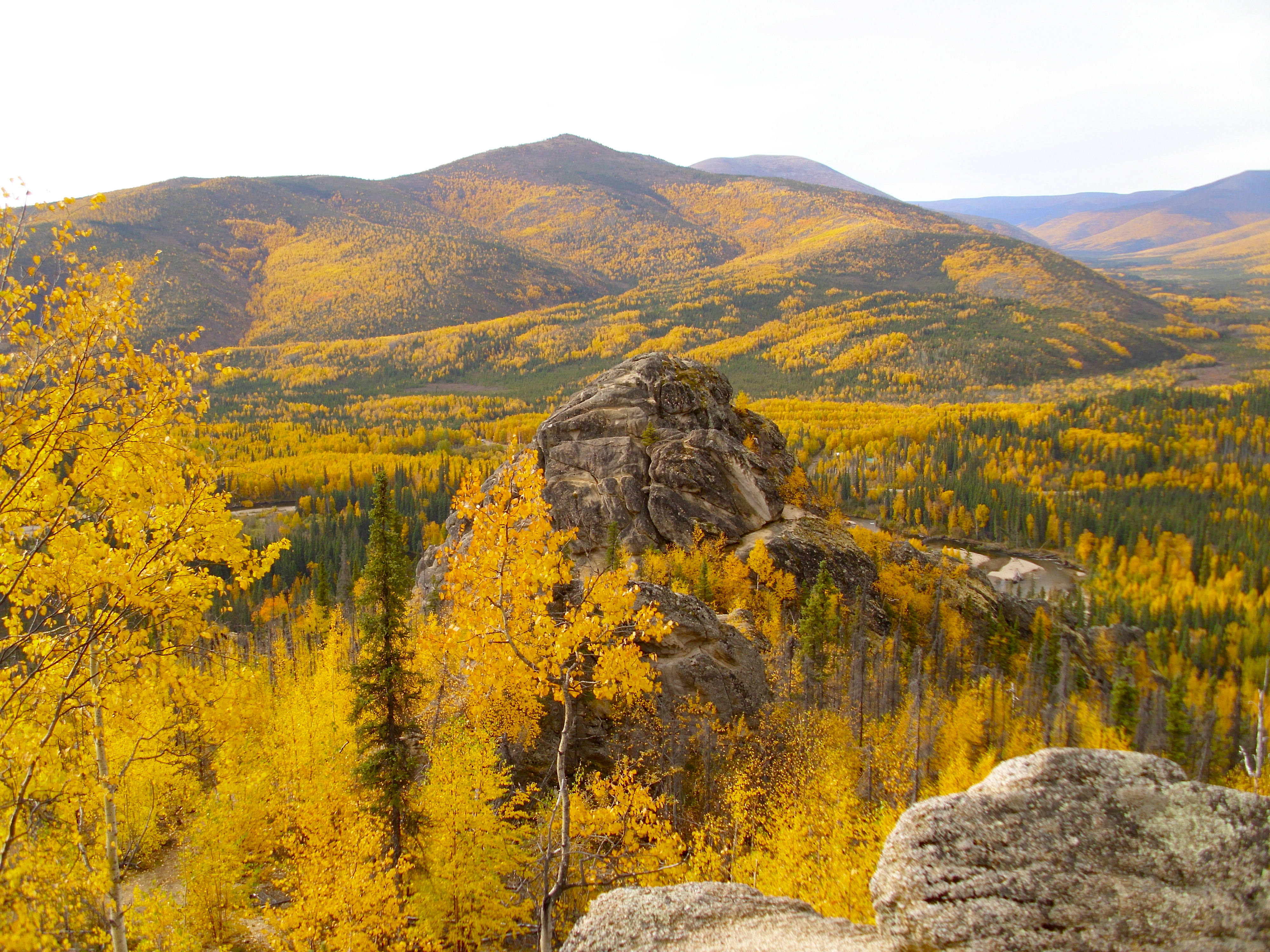 Angel Rocks Tor formation, Chena River State Recreation Area, Fairbanks-North Star Borough, Alaska